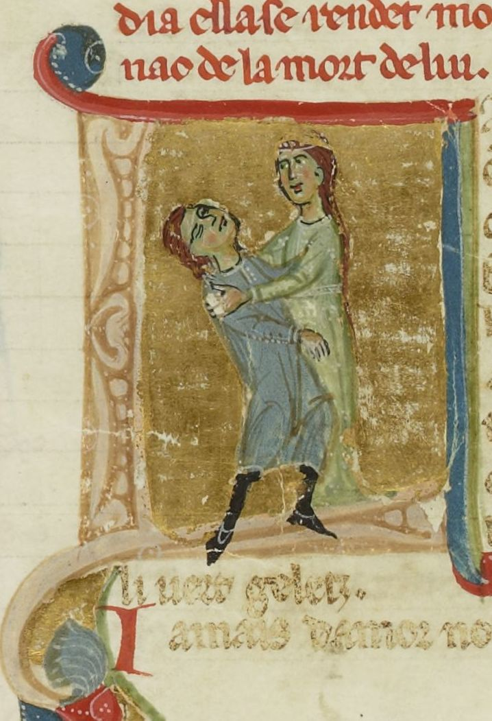 Death of the trobador Jaufre Rudel, illumination, Bibliothèque nationale de France, fonds français 854, fol. 121v